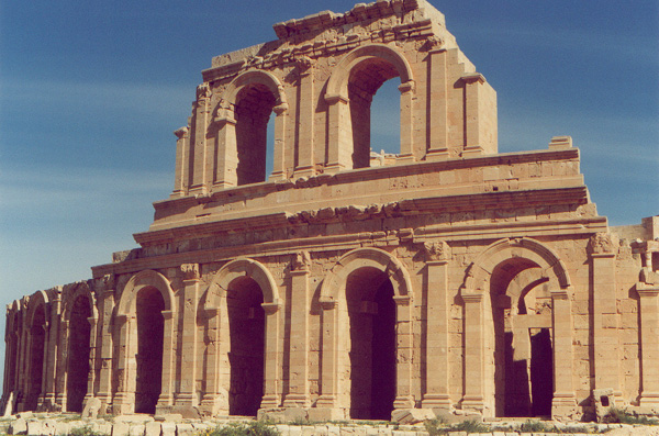 Sabratha-self made